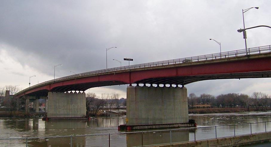 Photographed by Daniel Case 2007-03-15 from near one of the housing projects just south of the bridge on the Troy side.